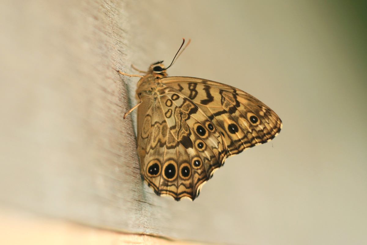 Neope niphonica (Japanese Labyrinth)